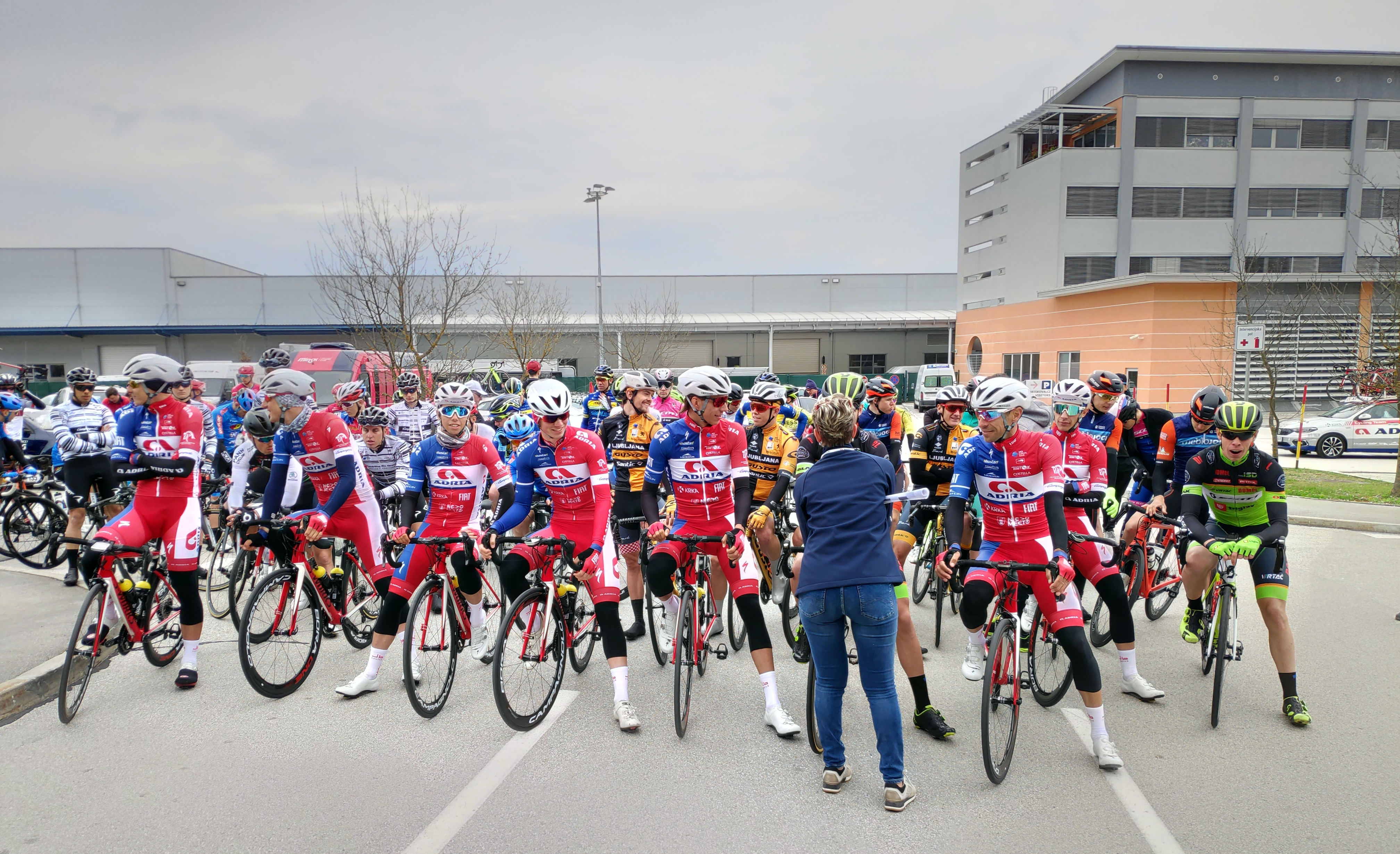 2019 GP Adria start